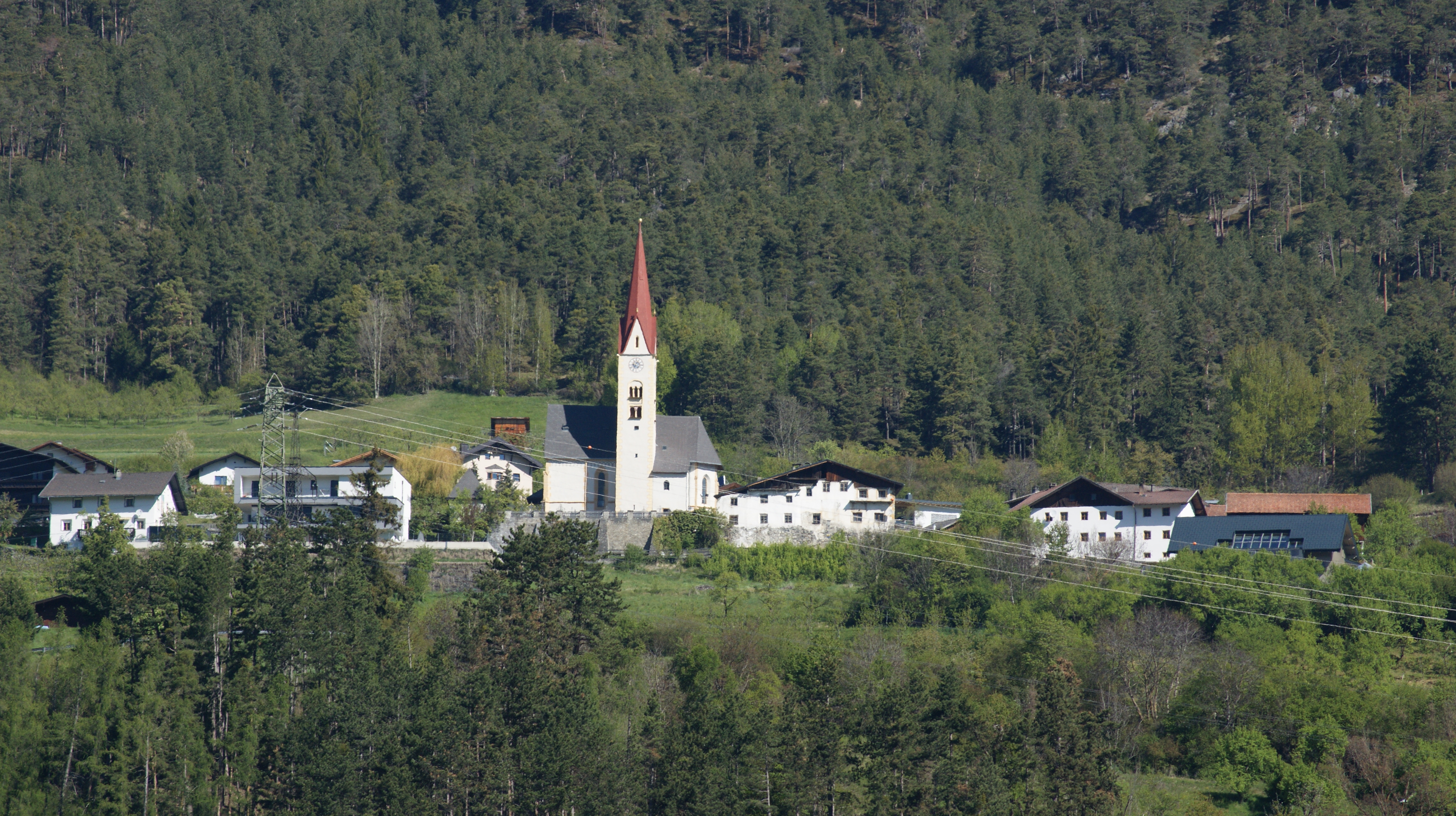 Stanz in the Tyrol. View from the district court Landeck in Perfuchs.